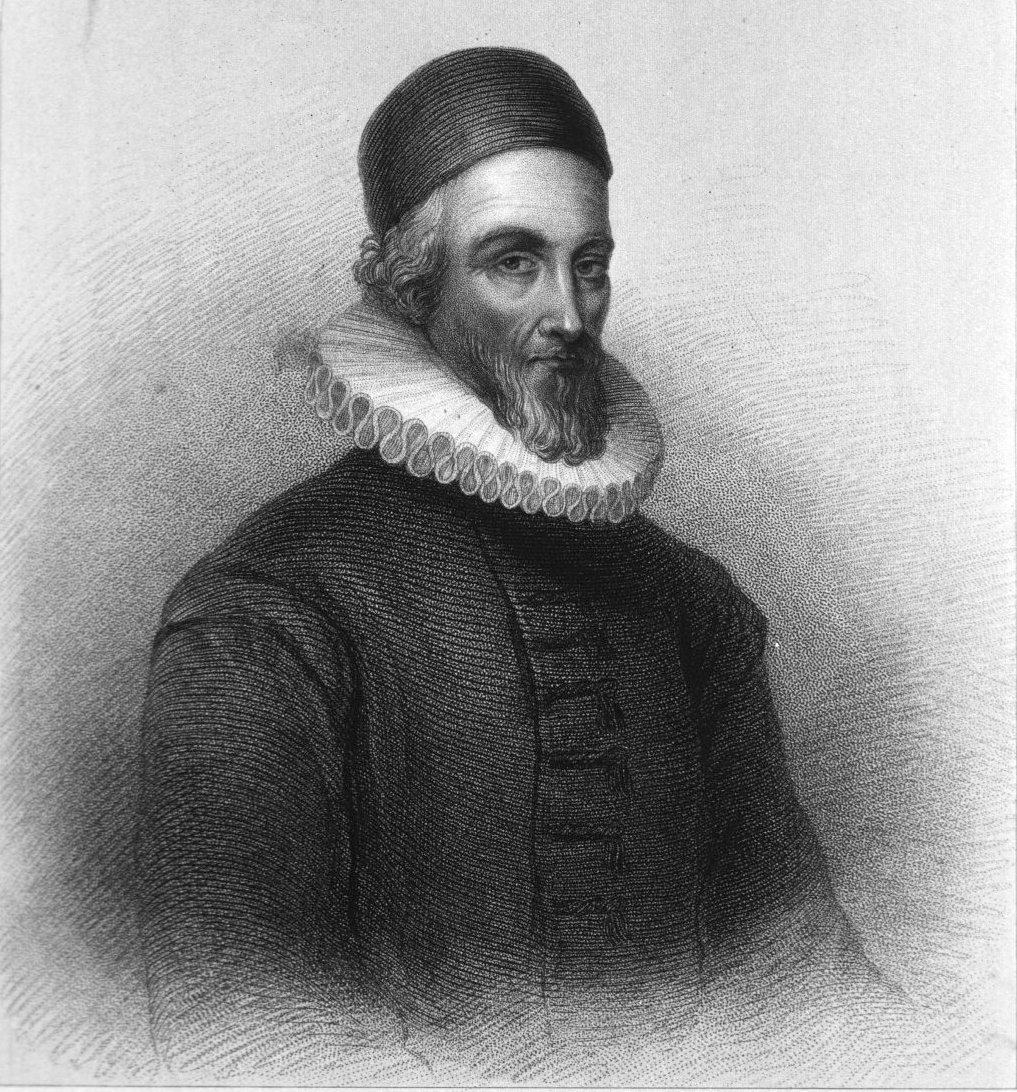 Andrew Cant (1590-1663)